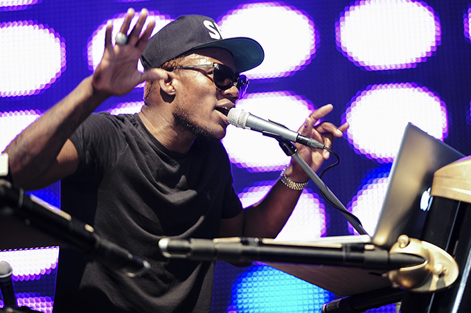 Parklife Festival 2012